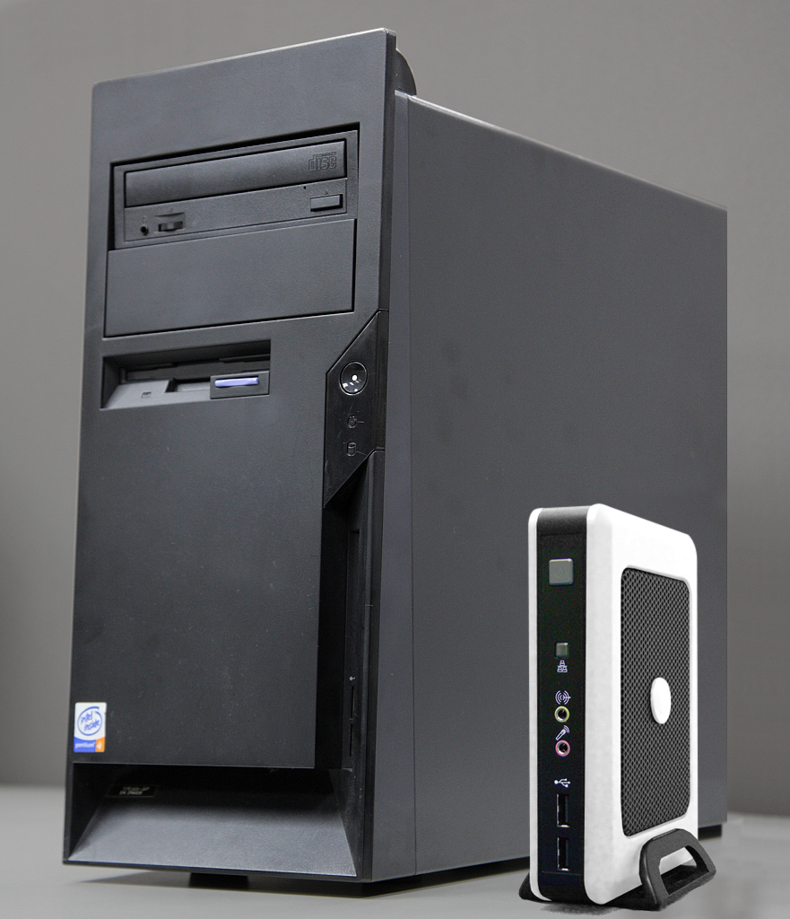 Clientron U700 Thin Client VS Tradition PC